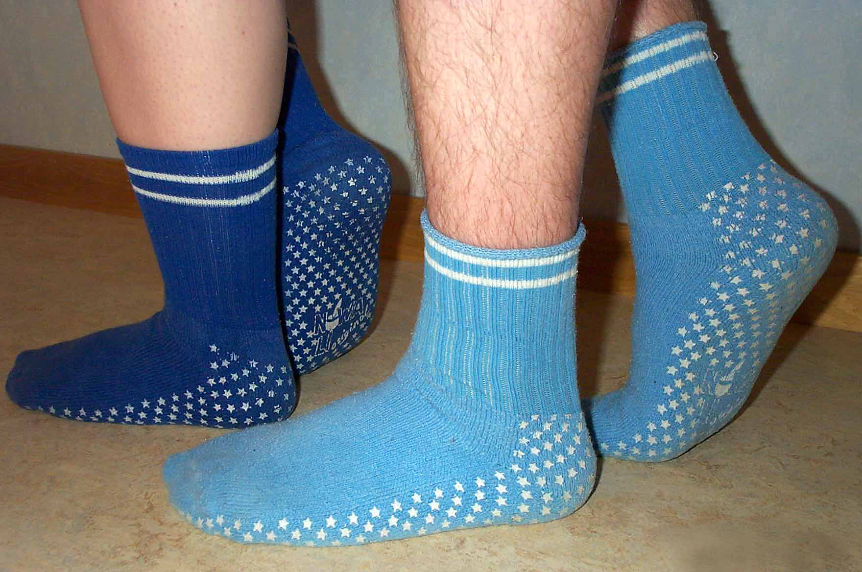 Picture of Swedish original non-skid socks from Nowali.